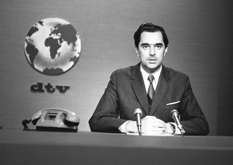 Andrzej Kozera presenting communist Television Journal (DTV), 1960s. Photo by PAP.